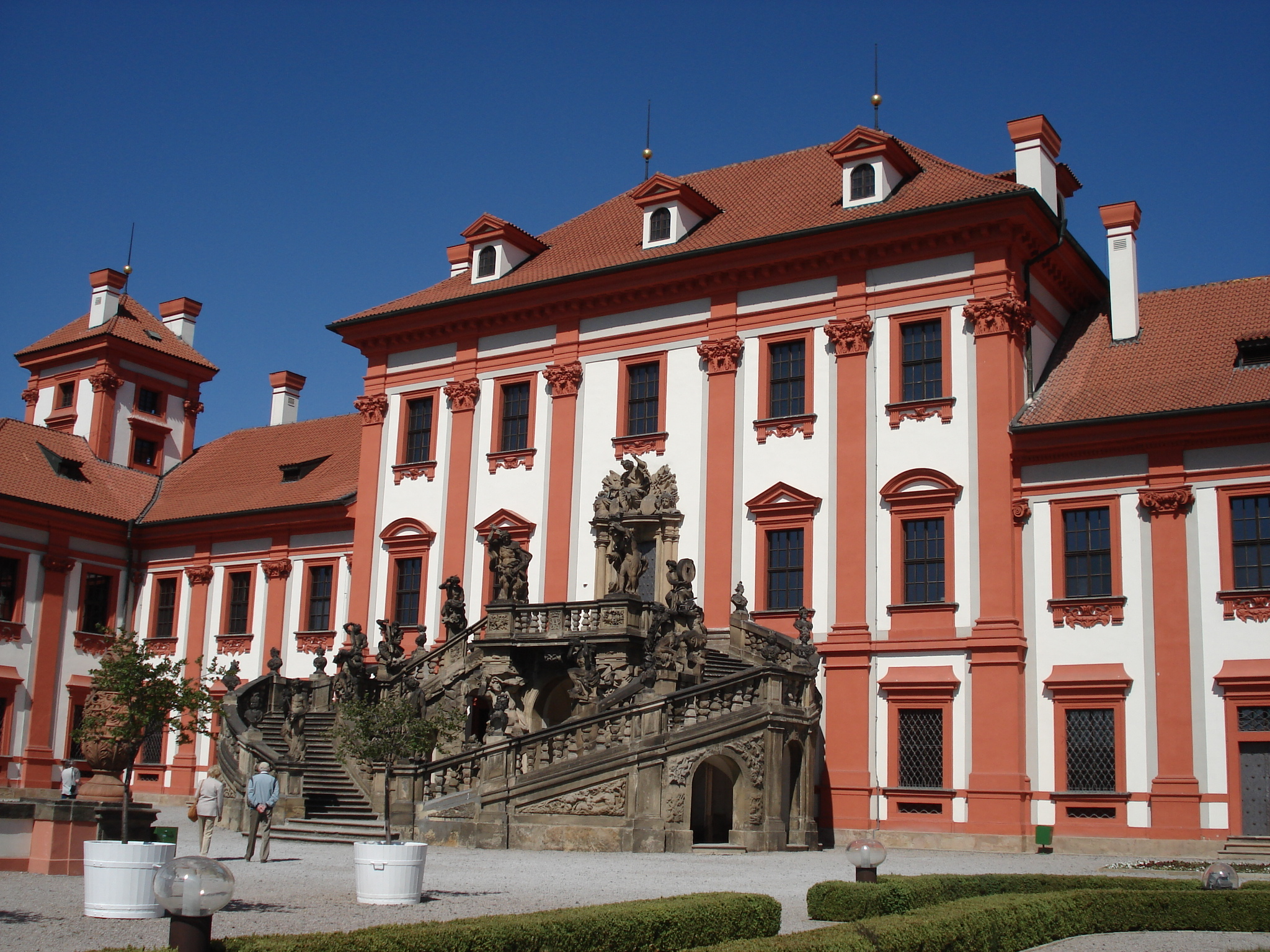 Troja castle, Prague, Czech Republic